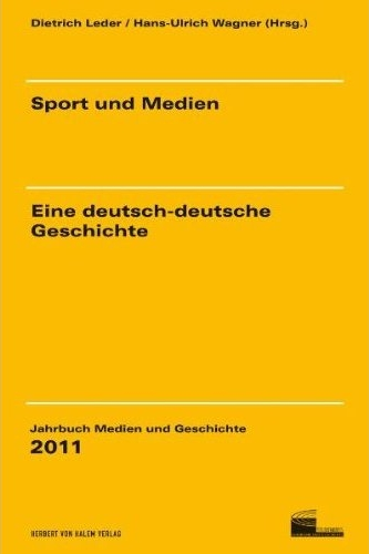 Yearbook for Media and History (edition 2011)